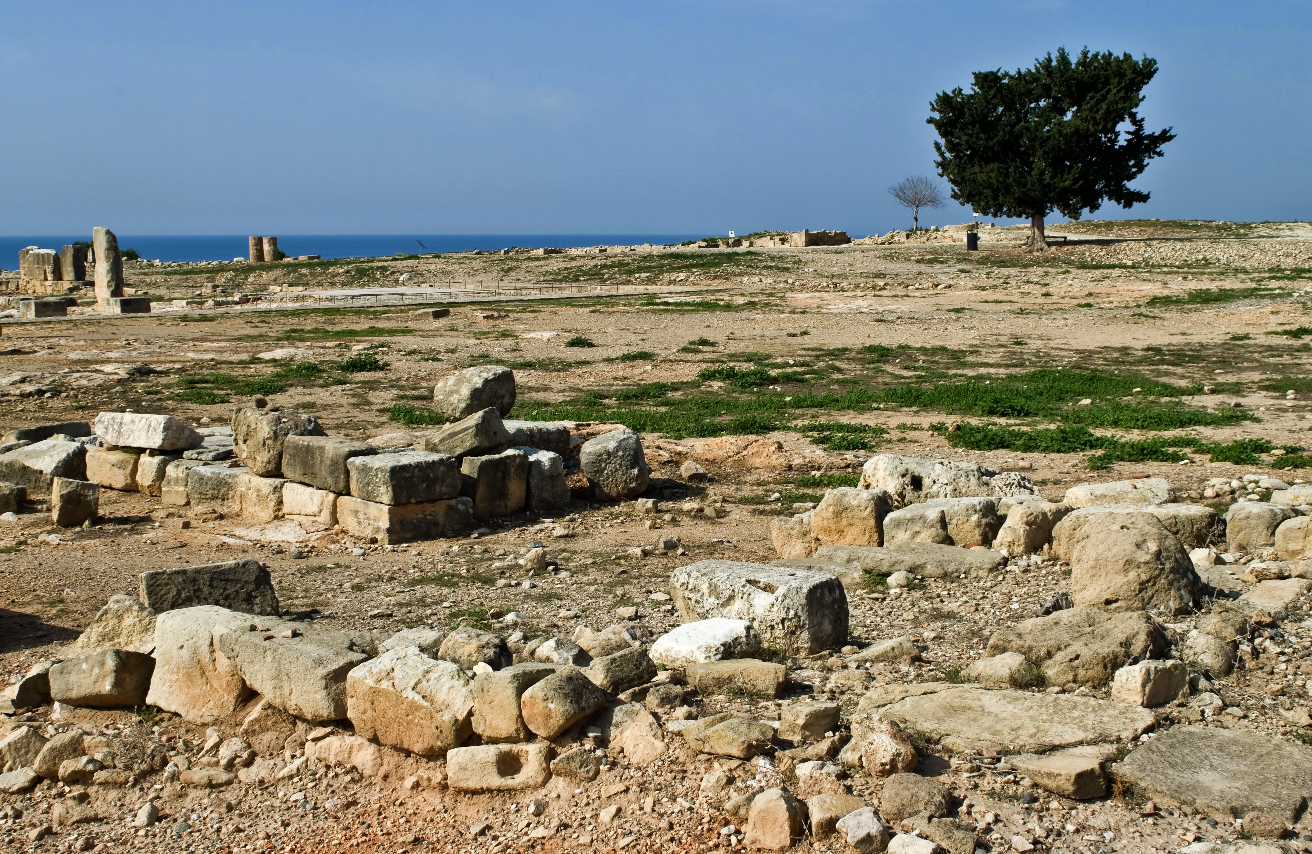 The Sanctuary of Aphrodite in Kouklia, Cyprus.